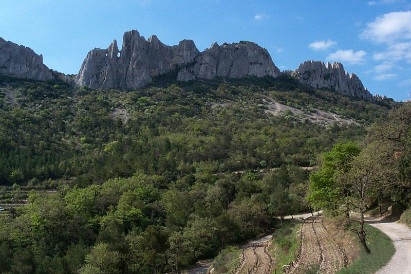 The "Dentelles Sarrasines", as seen from below the slope of the adjacent, northern chain of hillocks in the mountains of the Dentelles de Montmirail, Southern France, Département de Vaucluse. This very rock is called the Rocher du Turque.